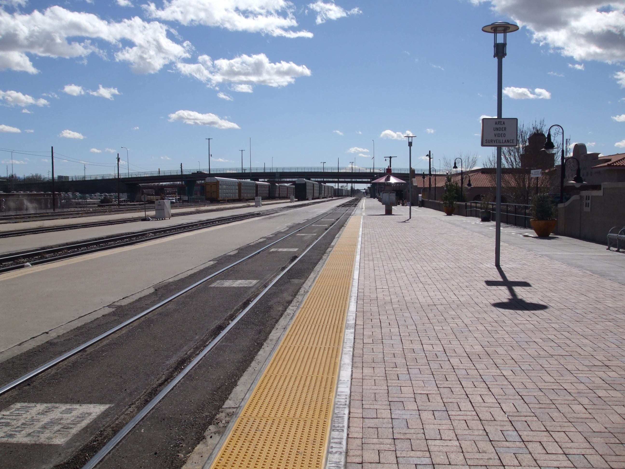 Rail Runner Express Downtown Albuquerque station looking south. The Amtrak platform is visible in the distance, along the same length of track.